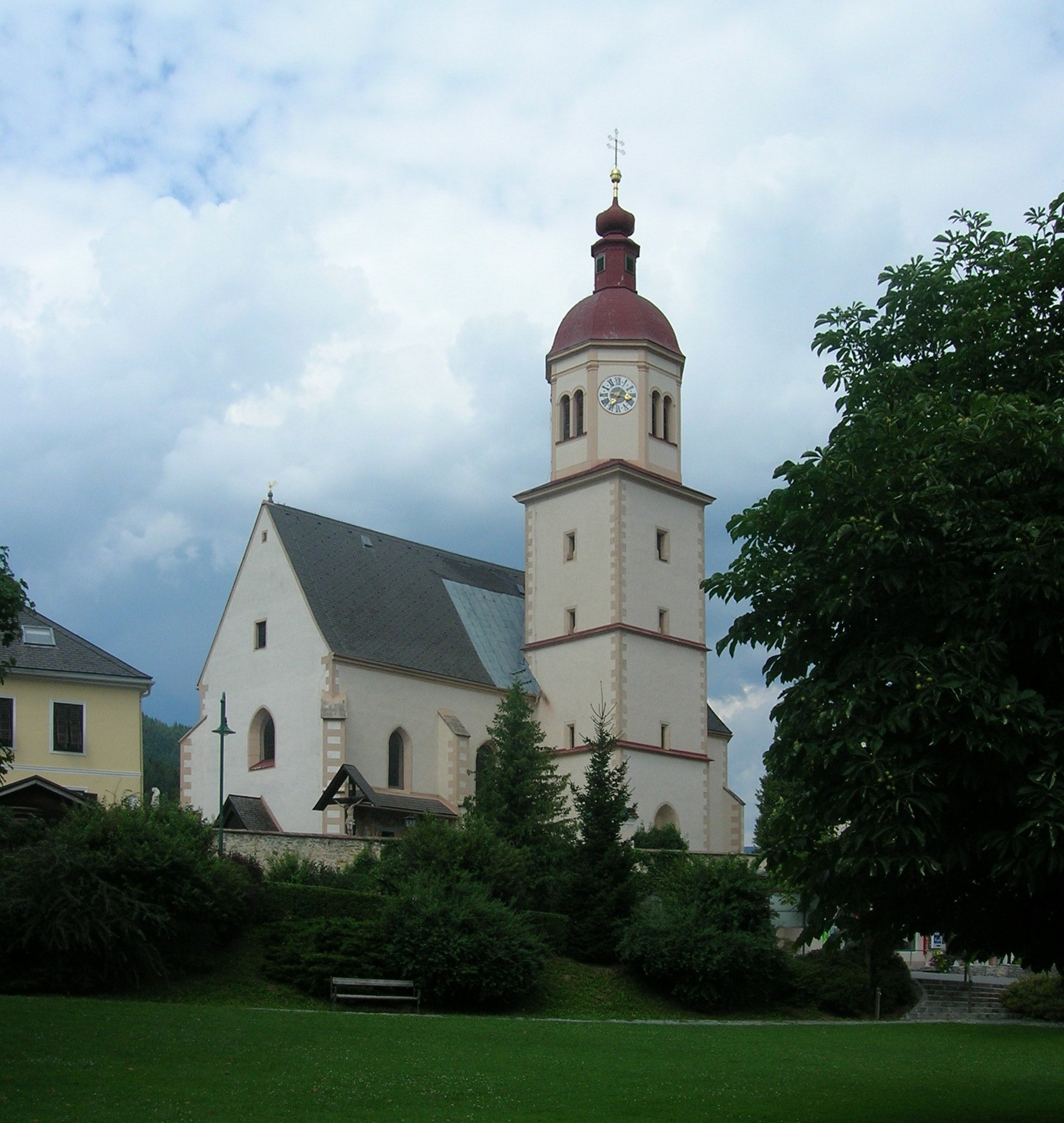 catholic church in Fladnitz/Teichalm, Styria, Austria